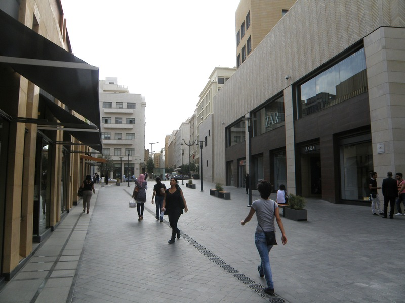 beirut souks shopping district